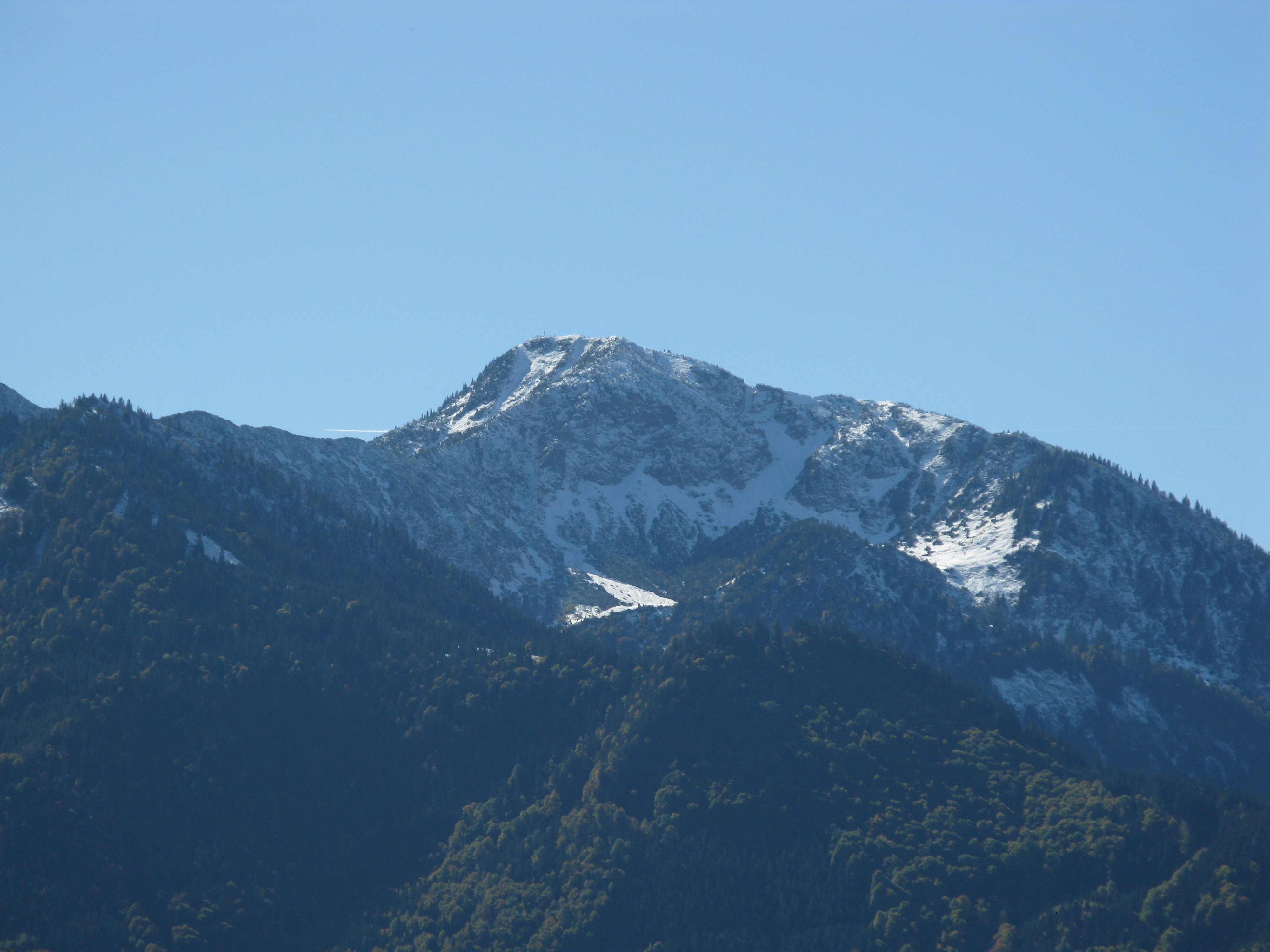 The Heimgarten - close to Kochel am See, Upper Bavaria, Germany.